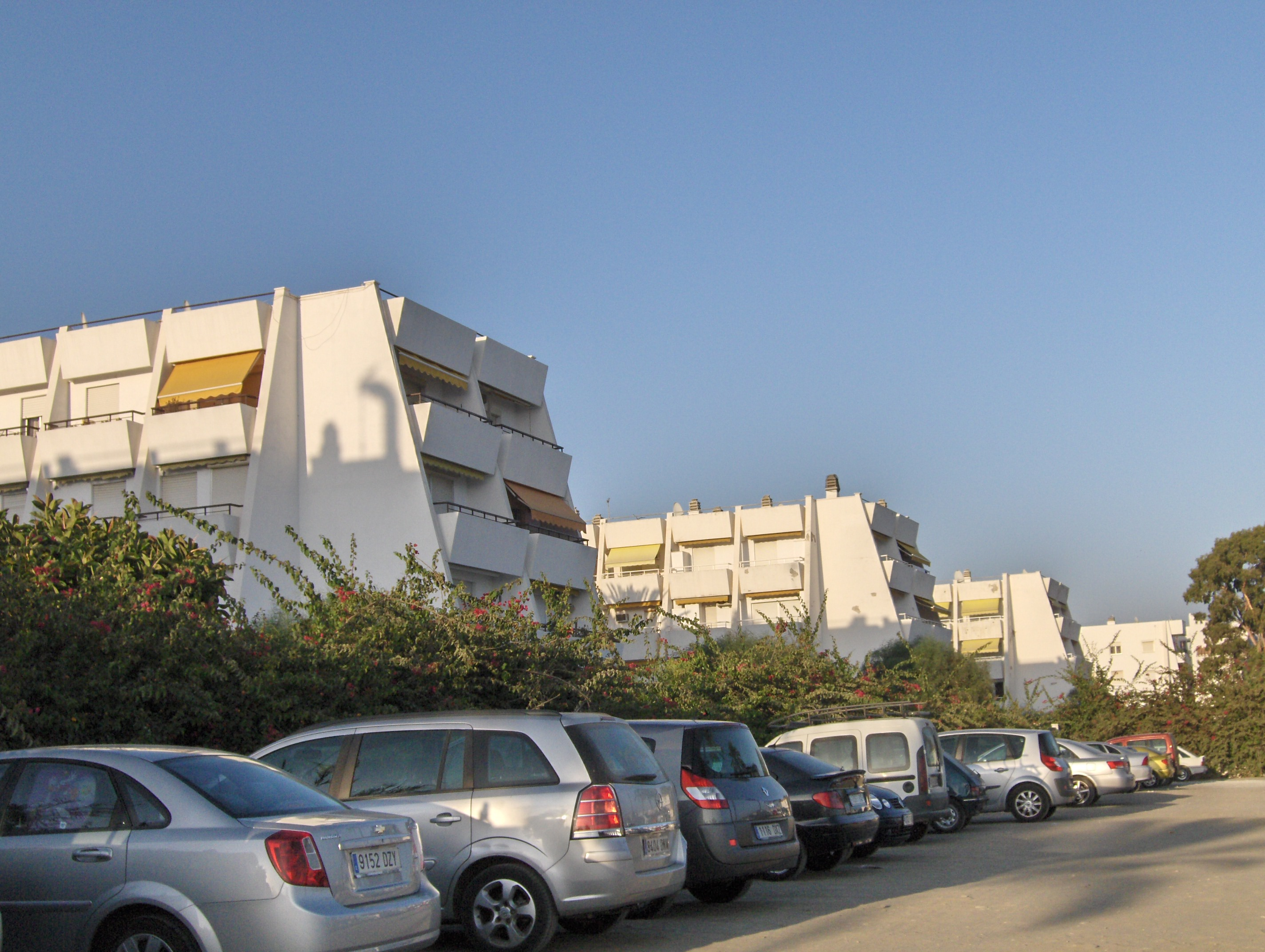 Builings in Caleta de Vélez, Spain.